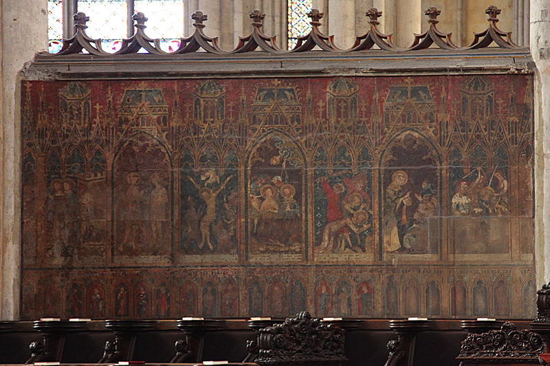 Cologne Cathedral, painting at a chorus wall in the High Altar (Felix and Nabor Screen, c. 1332-1349)